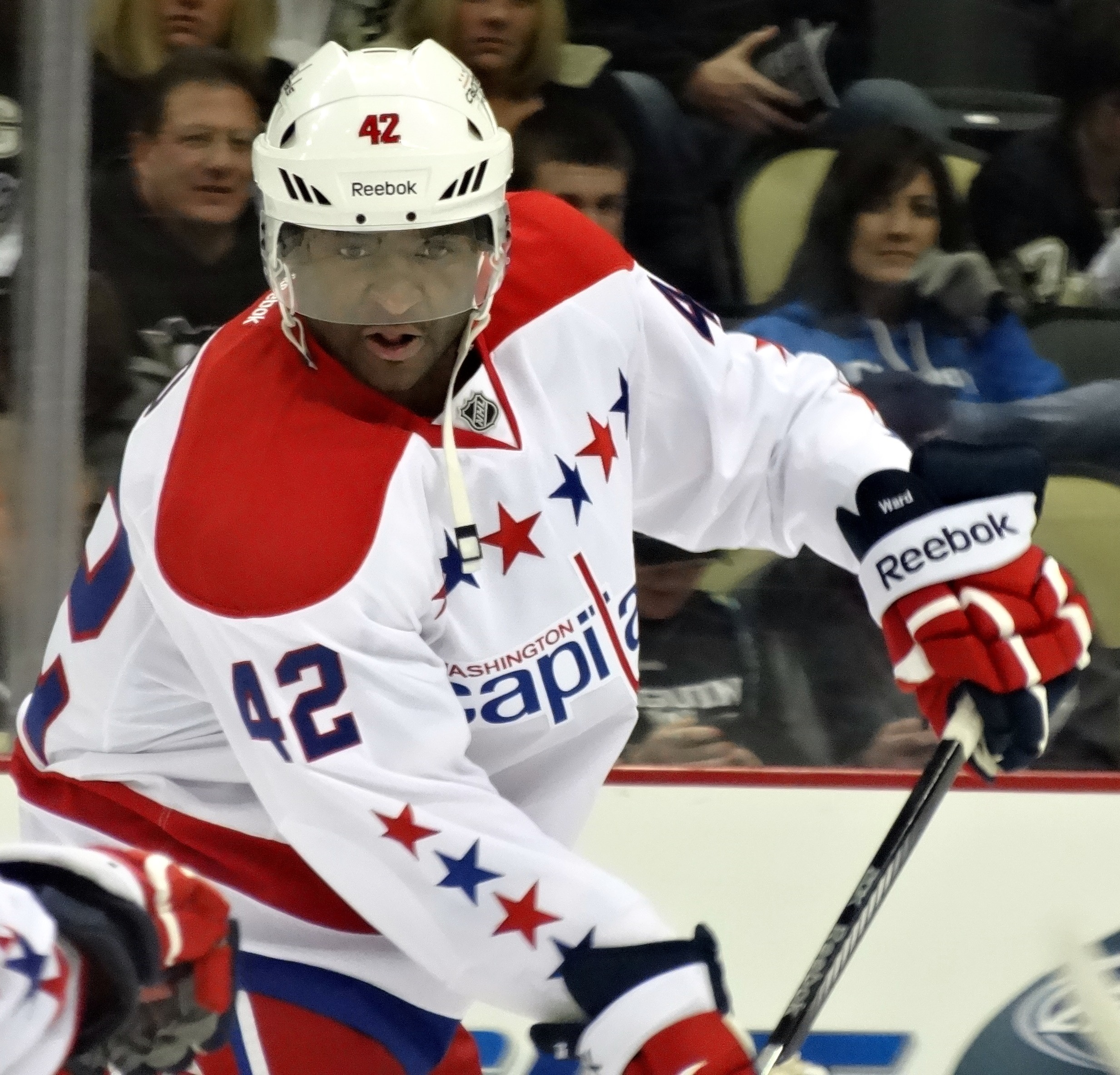 Washington Capitals right wing Joel Ward during a game against the Pittsburgh Penguins, March 19, 2013 at Consol Energy Center in Pittsburgh, PA.